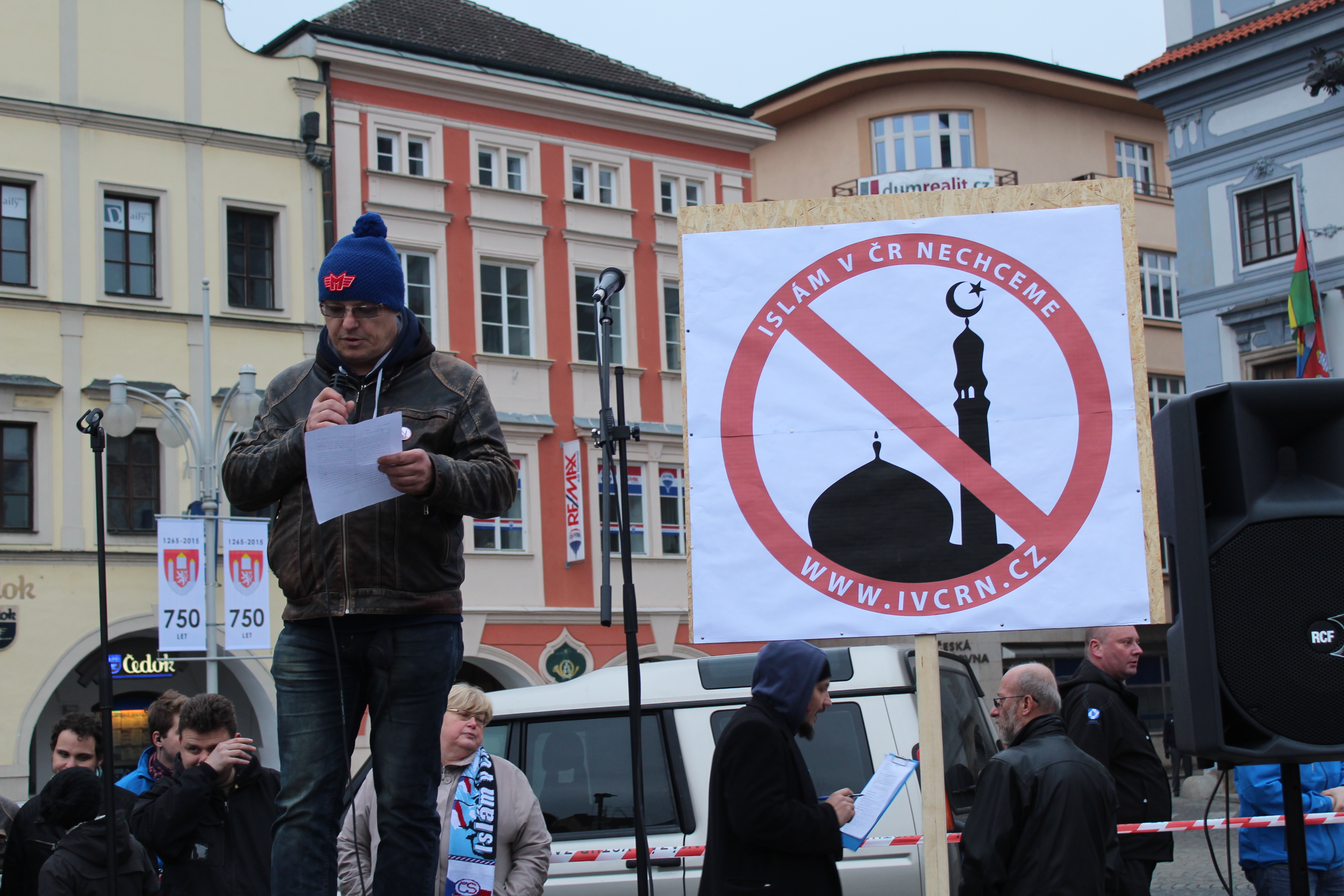 Speaker at demonstration of iniciative Islám v České republice nechceme (We don't want Islam in the Czech Republic) on March 14, 2015 in České Budějovice, Czech Republic.